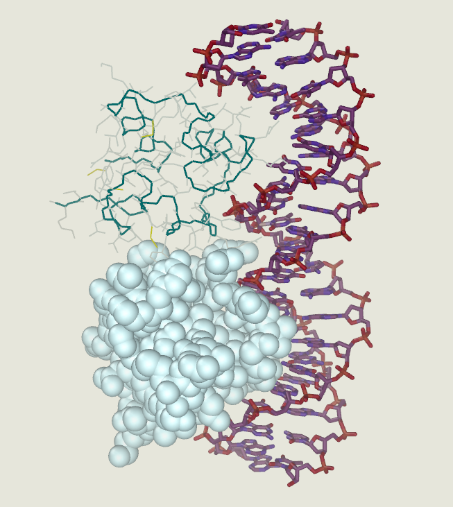 Cro protein complex with DNA. Picture created by Abalone program.